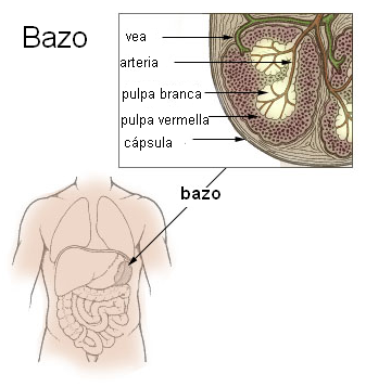 spleen anatomy